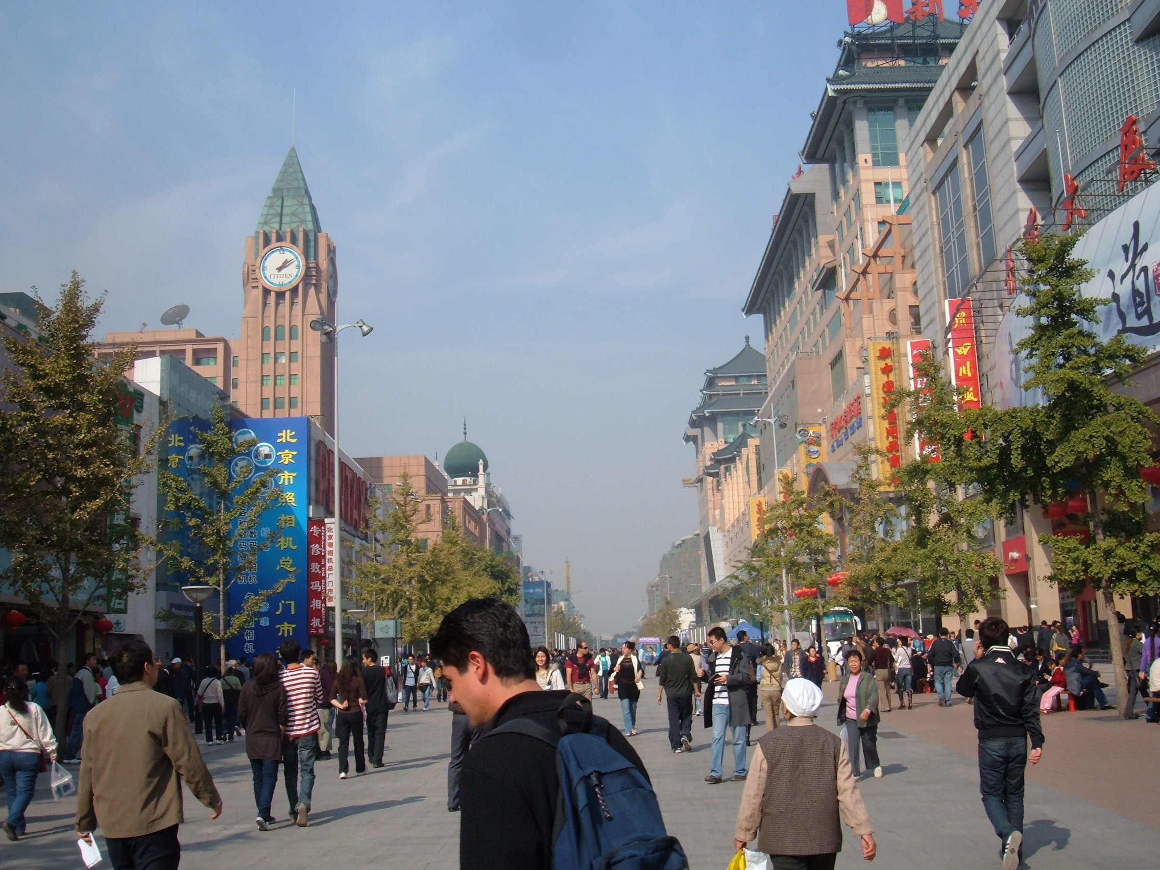 Pedestrian-only portion of Wangfujing Dajie, in Beijing, PRC near the Wangfujing metro stop. Left : Wangfujing, Department store